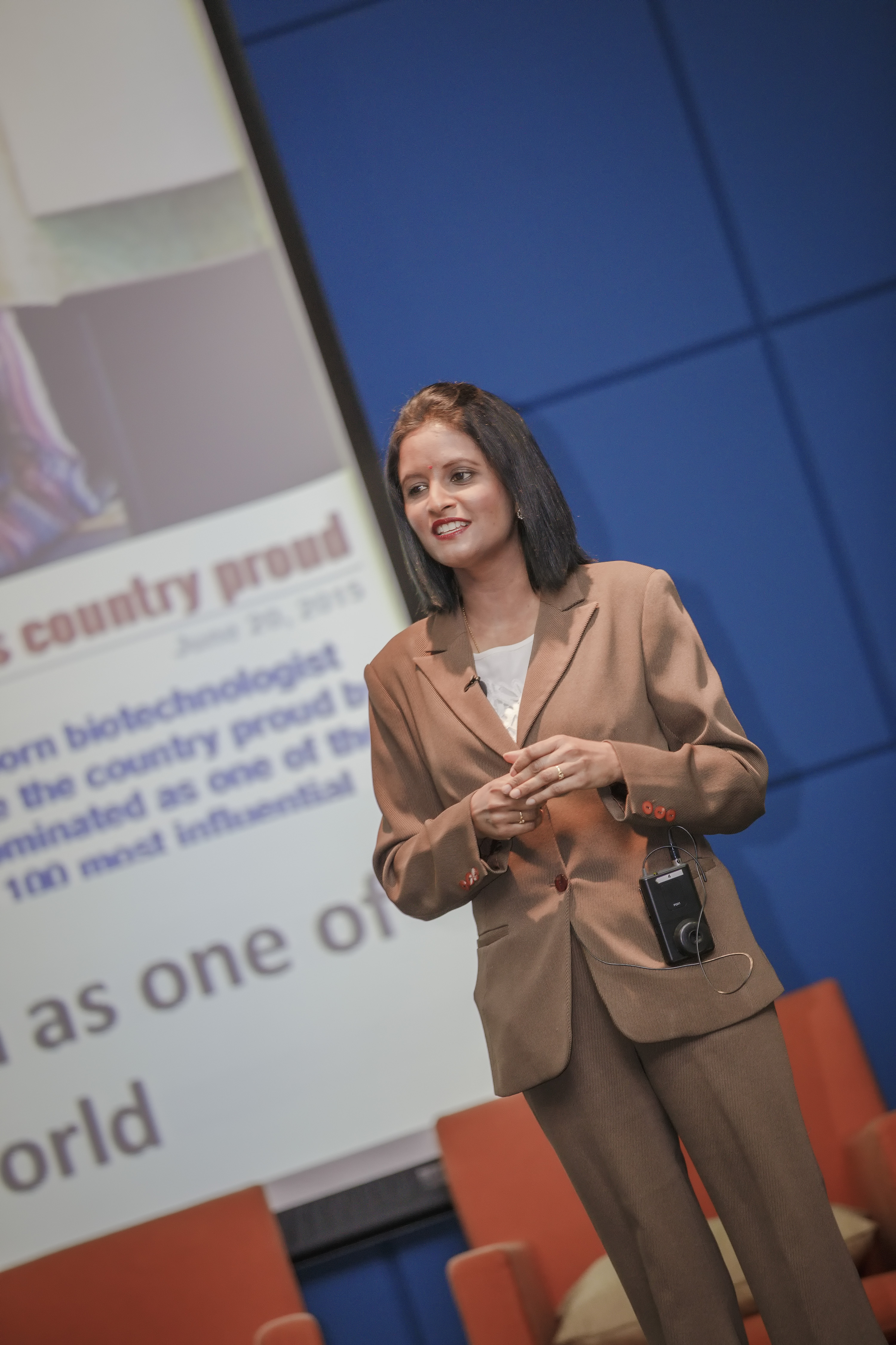 Mahaletchumy Arujanan giving a talk at Altera, an engineering company in Penang, Malaysia on her journey in her career